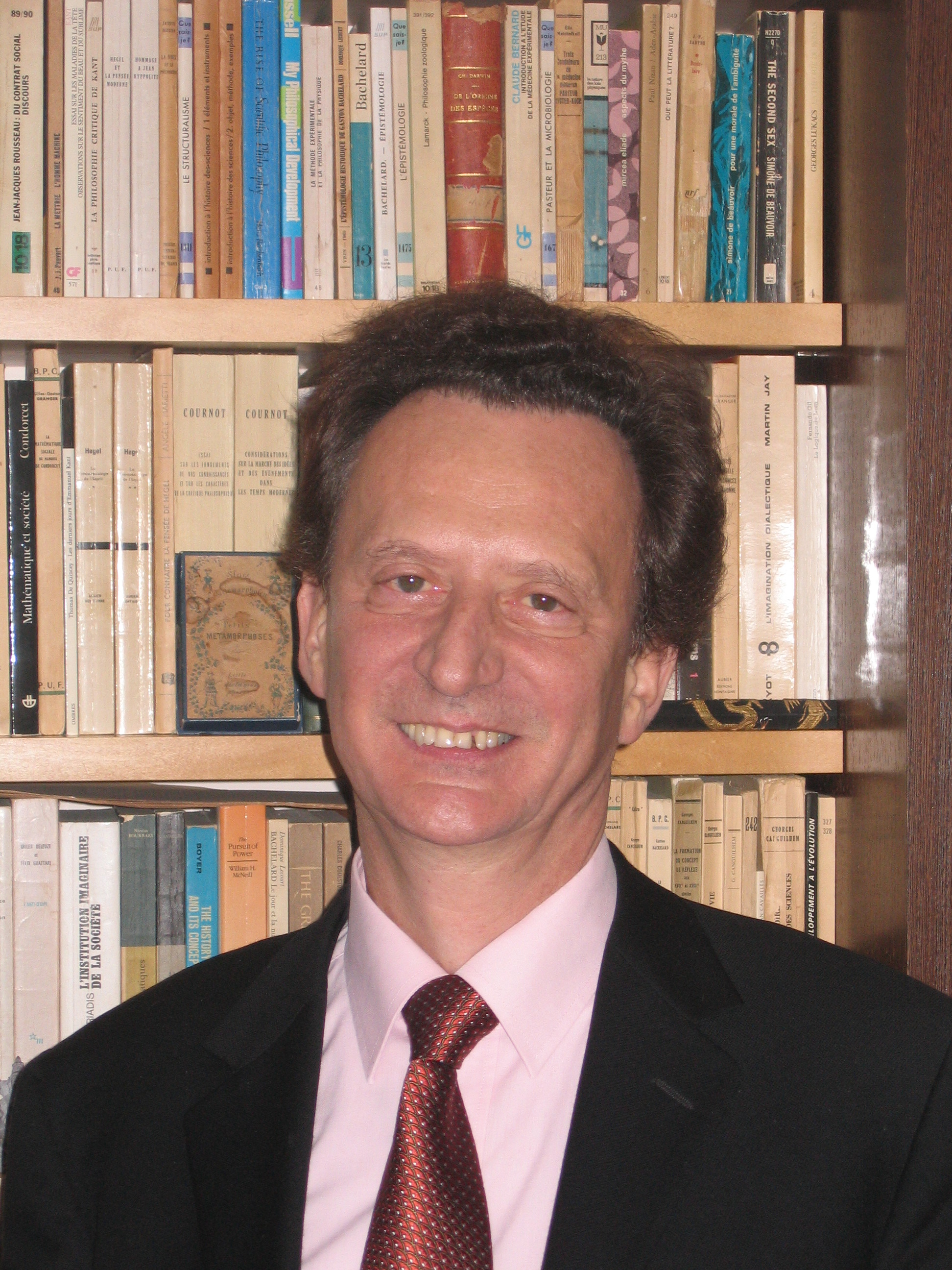 Claude Menard on conference in Paris 2009